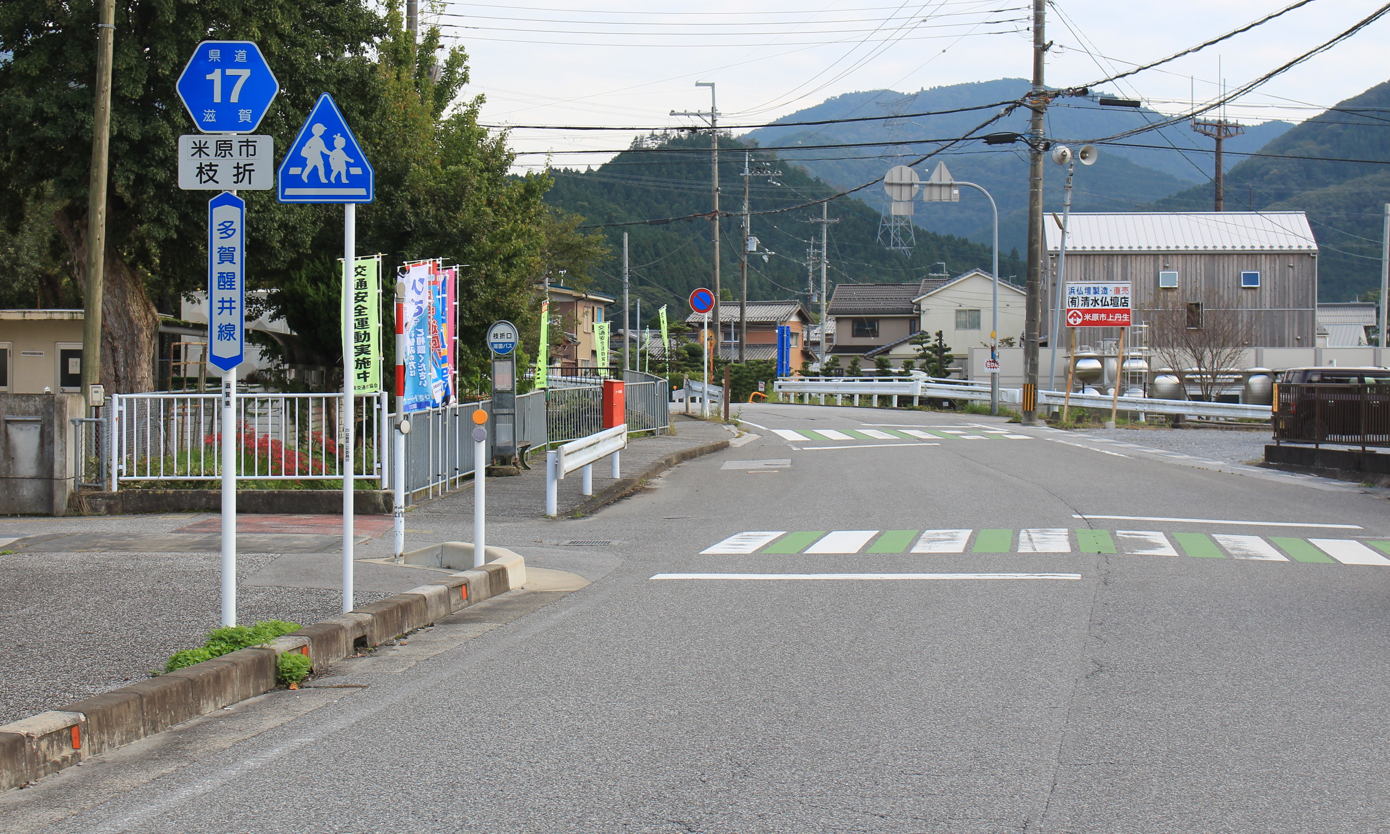 Shiga prefectural road 17 in Maibara, Shiga prefecture, Japan.